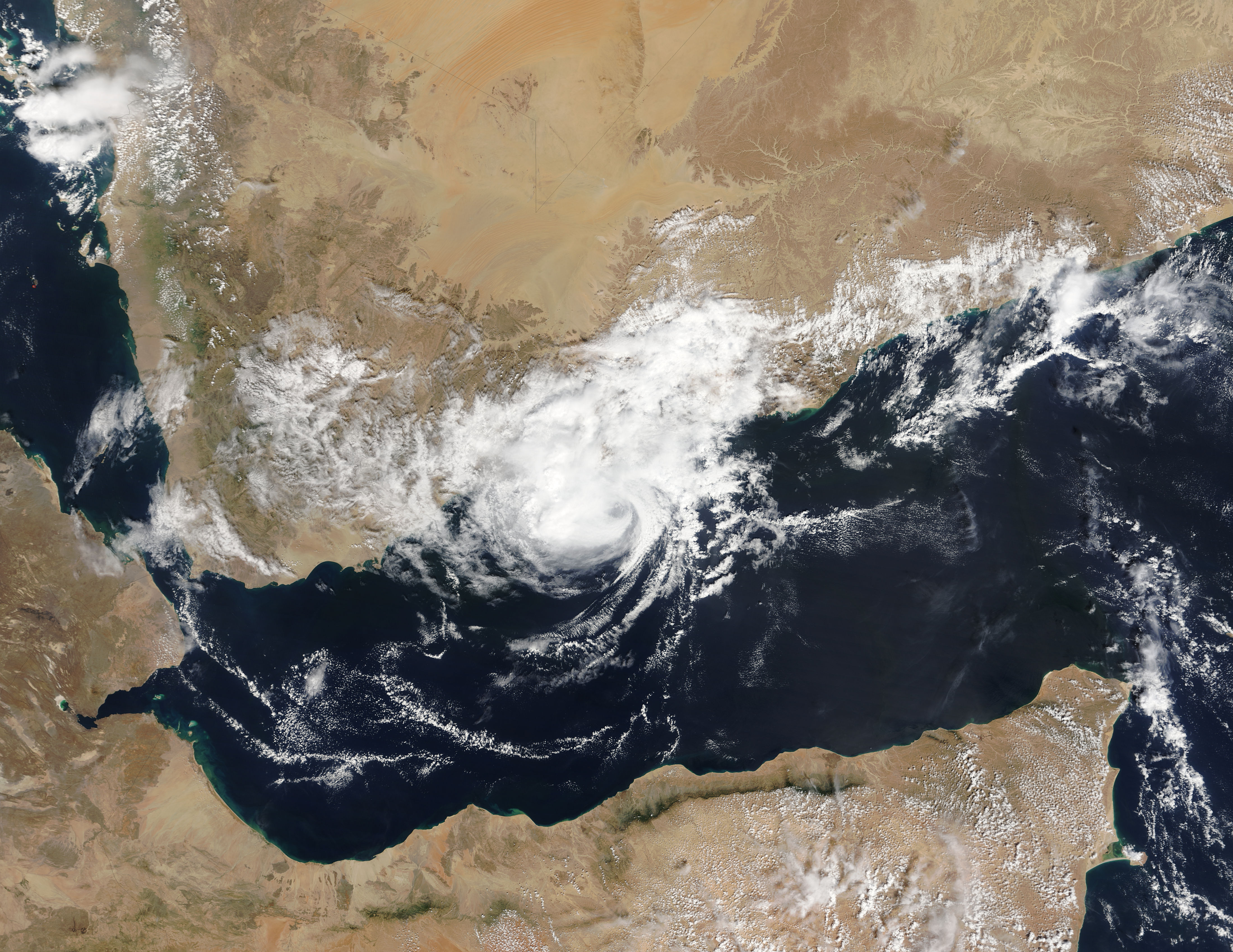 Tropical Cyclone Megh (05A) over Yemen